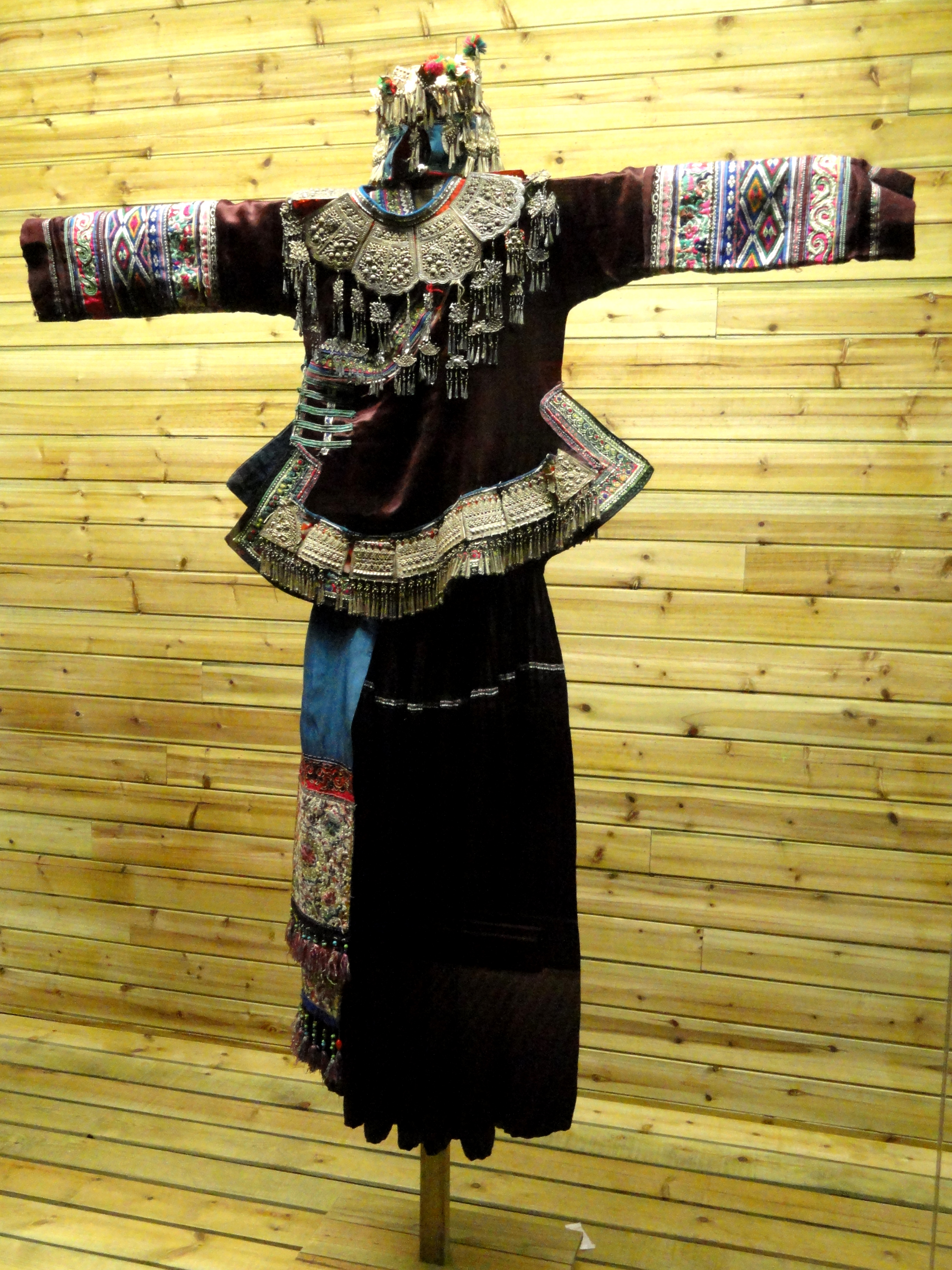 Zhuang woman embroidered, silver-ornamented dress. Clothing exhibited in the Yunnan Nationalities Museum, Kunming, Yunnan, China.